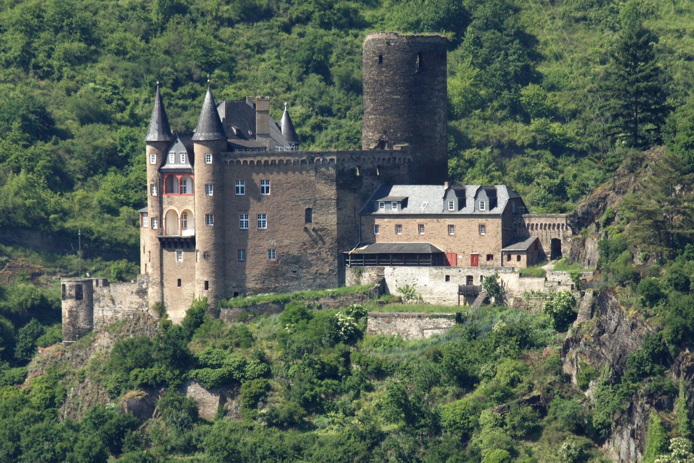 Katz castle near Sankt Goarshausen, Rhine, Germany. View from south-southeastern direction.